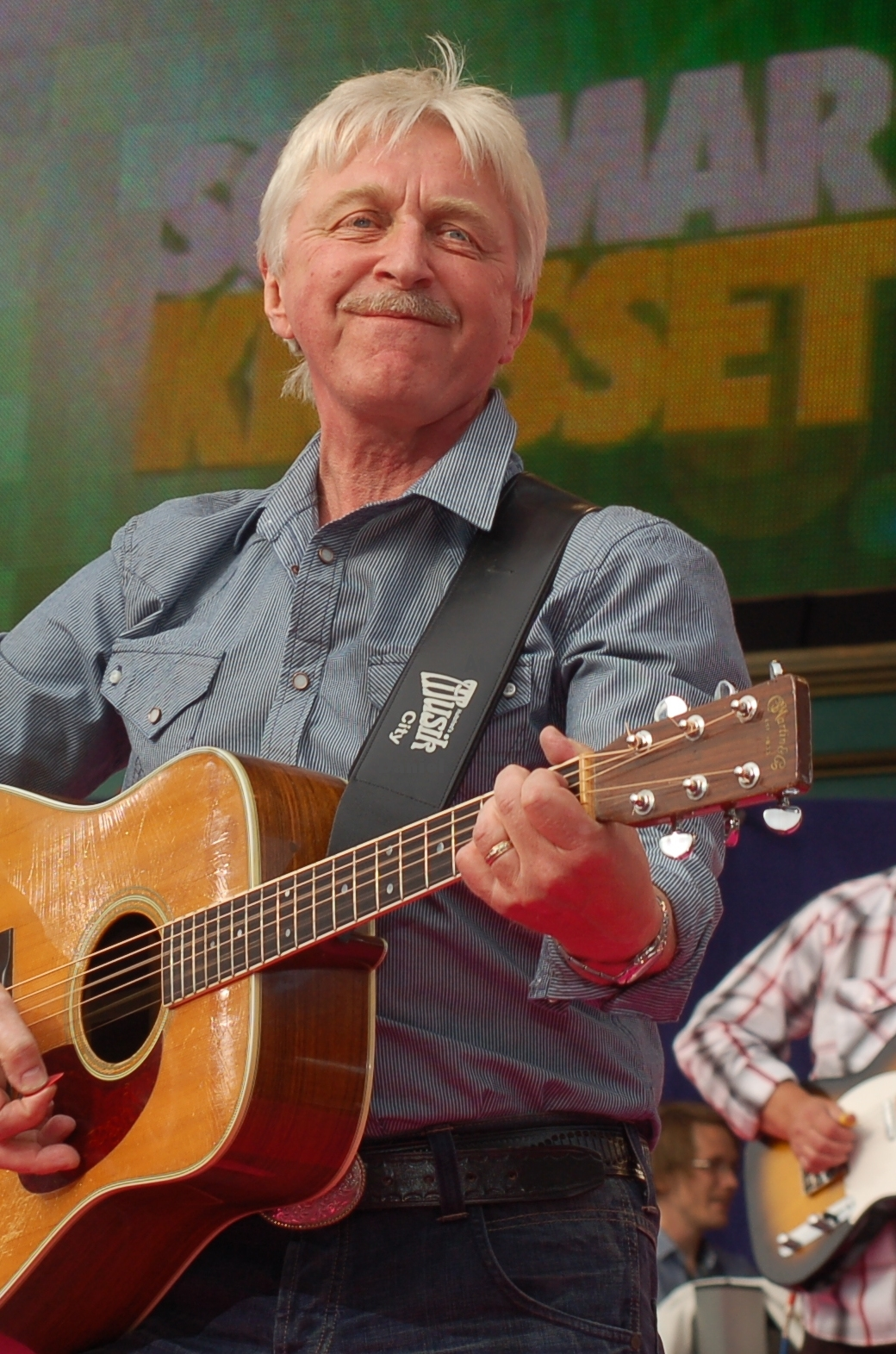 Mats Rådberg at Gröna Lund, Sommarkrysset